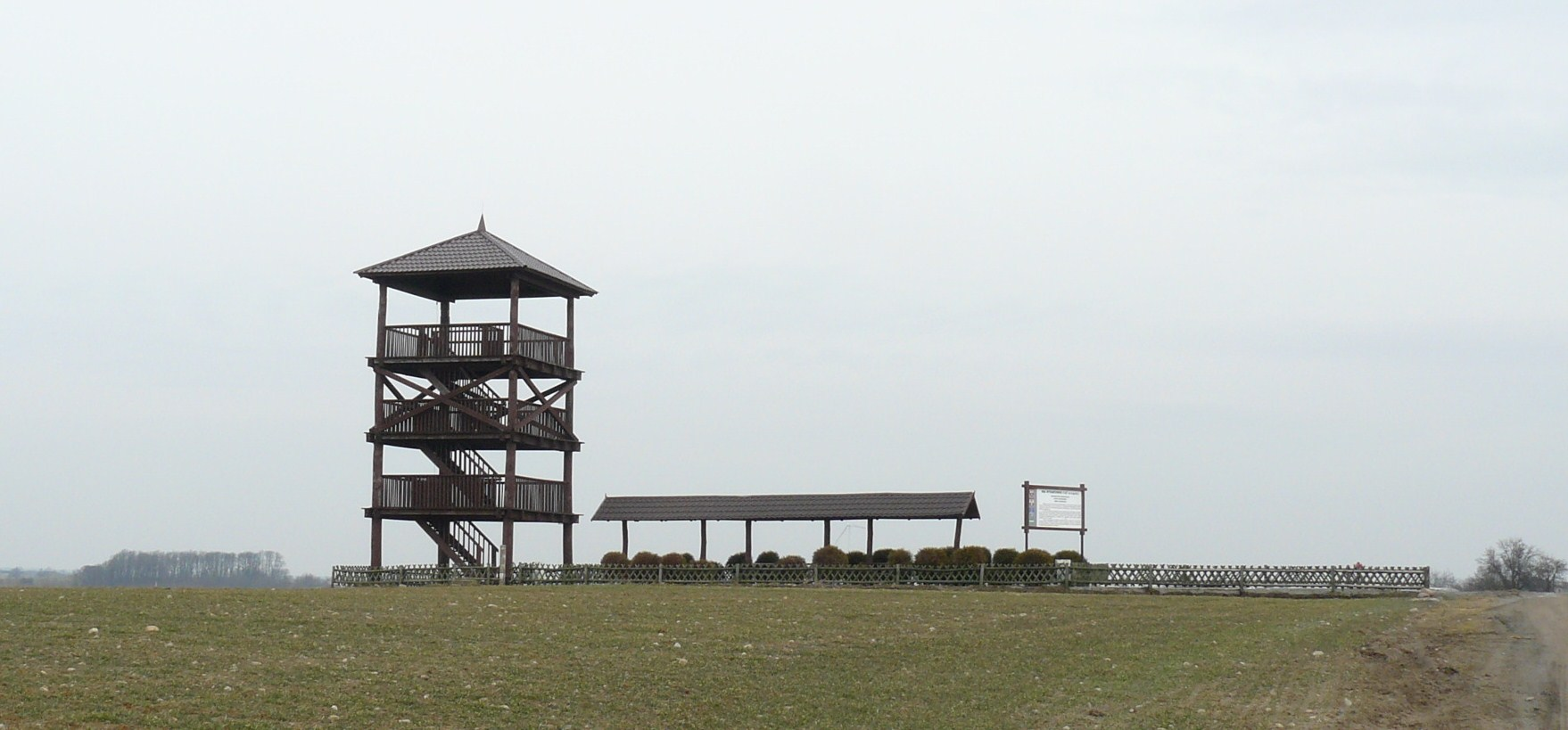 Wydartowski Wall - View Tower.